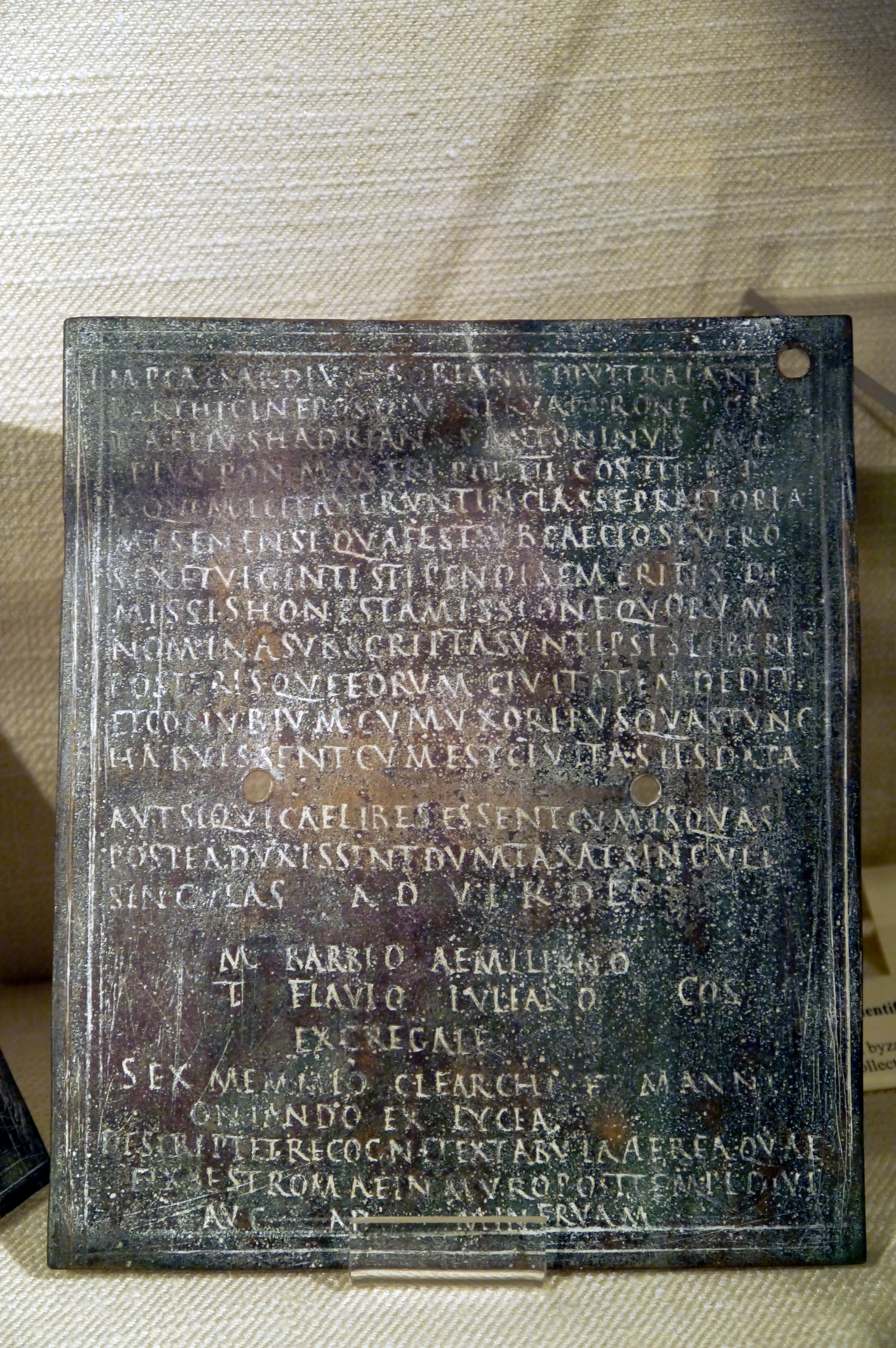 Cabinet des médailles, Paris, France. Military diploma of Sex. Memmius Clearchi, 140. CIL XVI 177 = AE 1953, 190 = AE 2006, 1869: Imp(erator) Caesar divi Hadriani f(ilius) divi Traiani Par/thic(i) nepos divi Nervae pronep(os) T(itus) Aelius / Hadrianus Antoninus Aug(ustus) Pius pont(ifex) / max(imus) trib(unicia) pot(estate) III co(n)s(ul) III p(ater) p(atriae) / iis qui mil(itaverunt) in class(e) pr(aetoria) Misen(ensi) quae est sub / Caecio Severo sex et vigin(ti) stip(endiis) emer(itis) / dimis(sis) hon(esta) miss(ione) quor(um) nom(ina) subscrip(ta) / sunt ipsis liber(is) post(eris)q(ue) eor(um) civi(tatem) ded(it) et / con(u)b(ium) cum uxor(ibus) q(uas) t(unc) habu(issent) cum / est civit(as) iis data aut siq(ui) cael(ibes) ess(ent) cum / i(i)s quas post(ea) duxis(sent) dumtax(at) sing(uli) / singul(as) // a(nte) d(iem) VI (¿?) Dec(embres) / Aemiliano t Iuliano co(n)s(ulibus) / ex gregale / Sex(to) Memmio Clearchi f(ilio) Manni / Oniando ex Lycia // Imp(erator) Caesar divi Hadriani f(ilius) divi Traiani / Parthici nepos divi Nervae pronepos / T(itus) Aelius Hadrianus Antoninus Aug(ustus) / Pius pon(tifex) max(imus) tri(bunicia) pot(estate) III co(n)s(ul) III p(ater) p(atriae) / iis qui militaverunt in classe praetoria / Misenensi quae est sub Caecio Severo / sex et viginti stipendi(i)s emeritis di/missis honesta missione quorum / nomina subscripta sunt ipsis liberis / posterisque eorum civitatem dedit / et conubium cum uxoribus quas tunc / habuissent cum est civitas iis data / aut si qui caelibes essent cum i(i)s quas / postea duxissent dumtaxat singuli / singulas a(nte) d(iem) VI K(alendas) Dec(embres) / M(arco) Barbio Aemiliano / T(ito) Flavio Iuliano / co(n)s(ulibus) / ex gregale / Sex(to) Memmio Clearchi f(ilio) Manni / Oniando ex Lycia / descript(um) et recognit(um) ex tabula aerea quae / fixa est Romae in muro post templ(um) divi / Aug(usti) ad Minervam